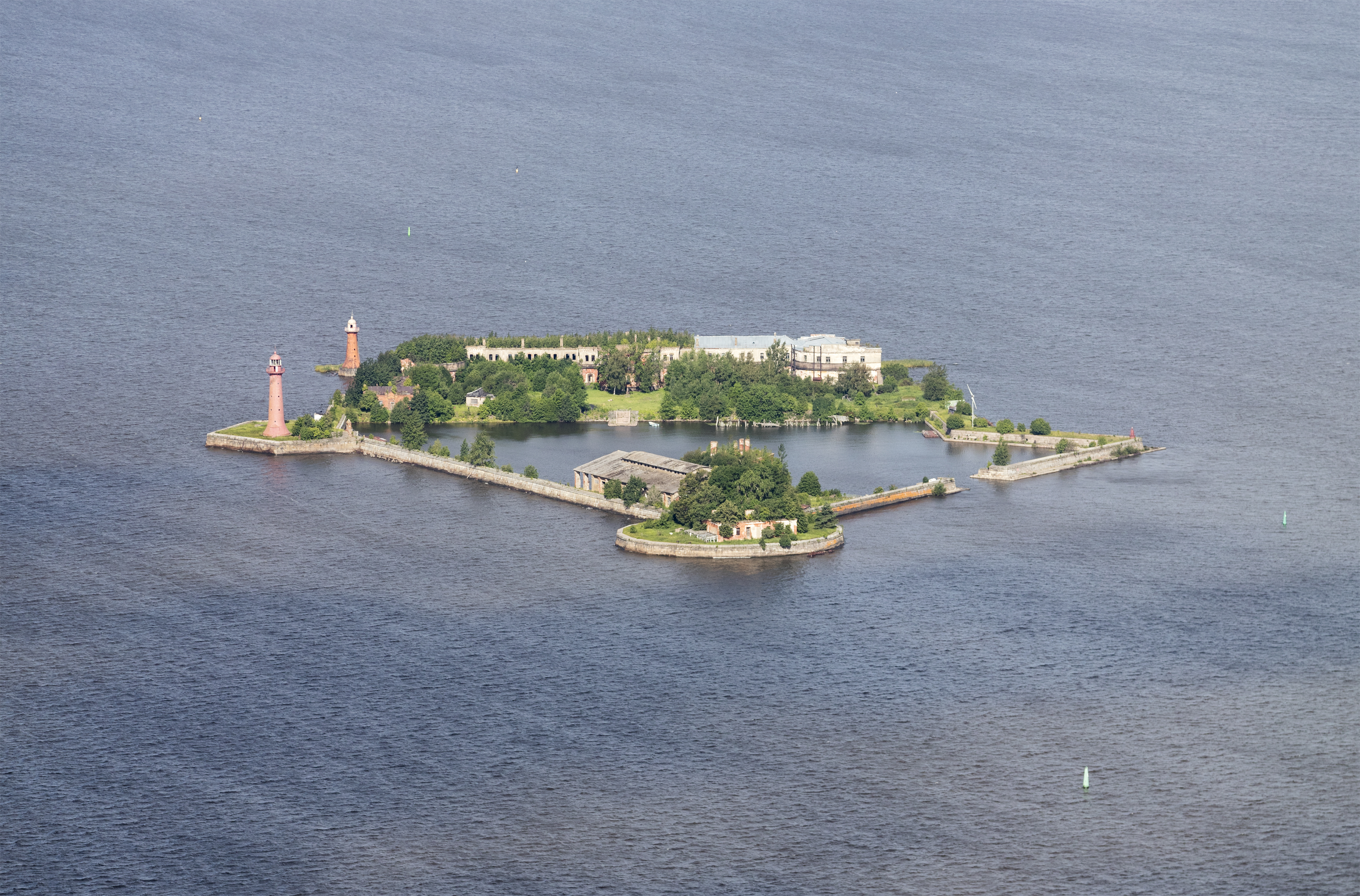 Fort Kronshlot, one of the fortresses in or adjacent to Kronstadt, Saint Petersburg, Russia.